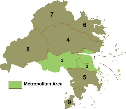 county-level divisions of Taizhou in Zhejiang province, China